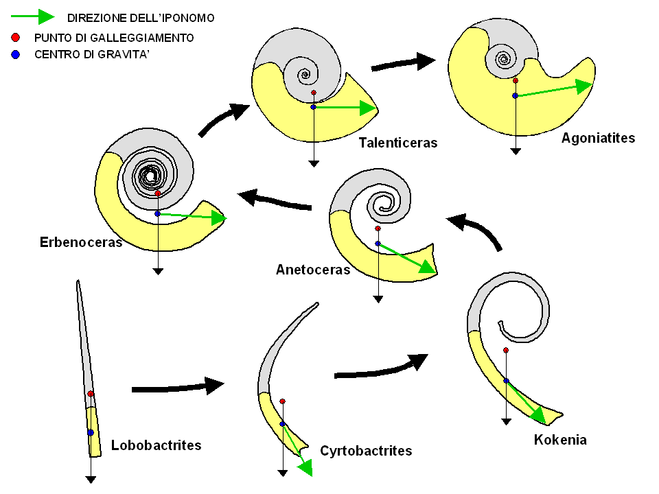 scheme of evolution from Bactritida to primitive Goniatitida. After Klug & Korn (2204)